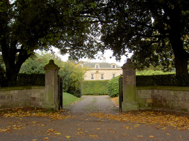 Entrance to Wadworth Hall In the 1970's it was used as offices for the architects T H Johnson and Sons.